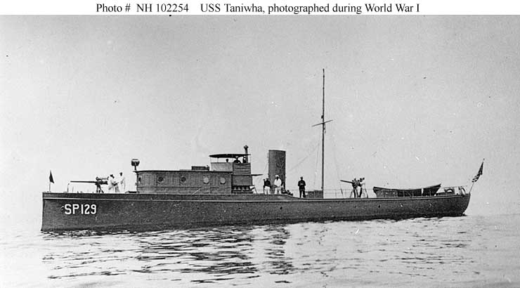 United States Navy patrol boat USS Taniwha (SP-129)